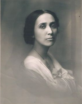 Laura Cornelius Kellogg, Princess Wynnogene Other information No.